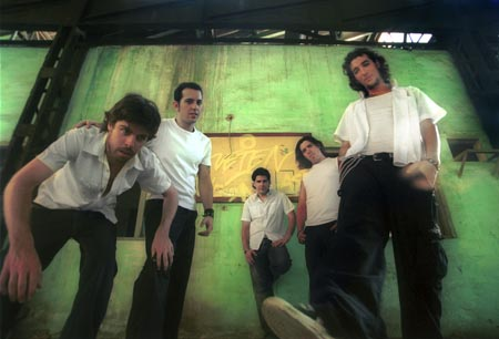 imagen promo estirpe